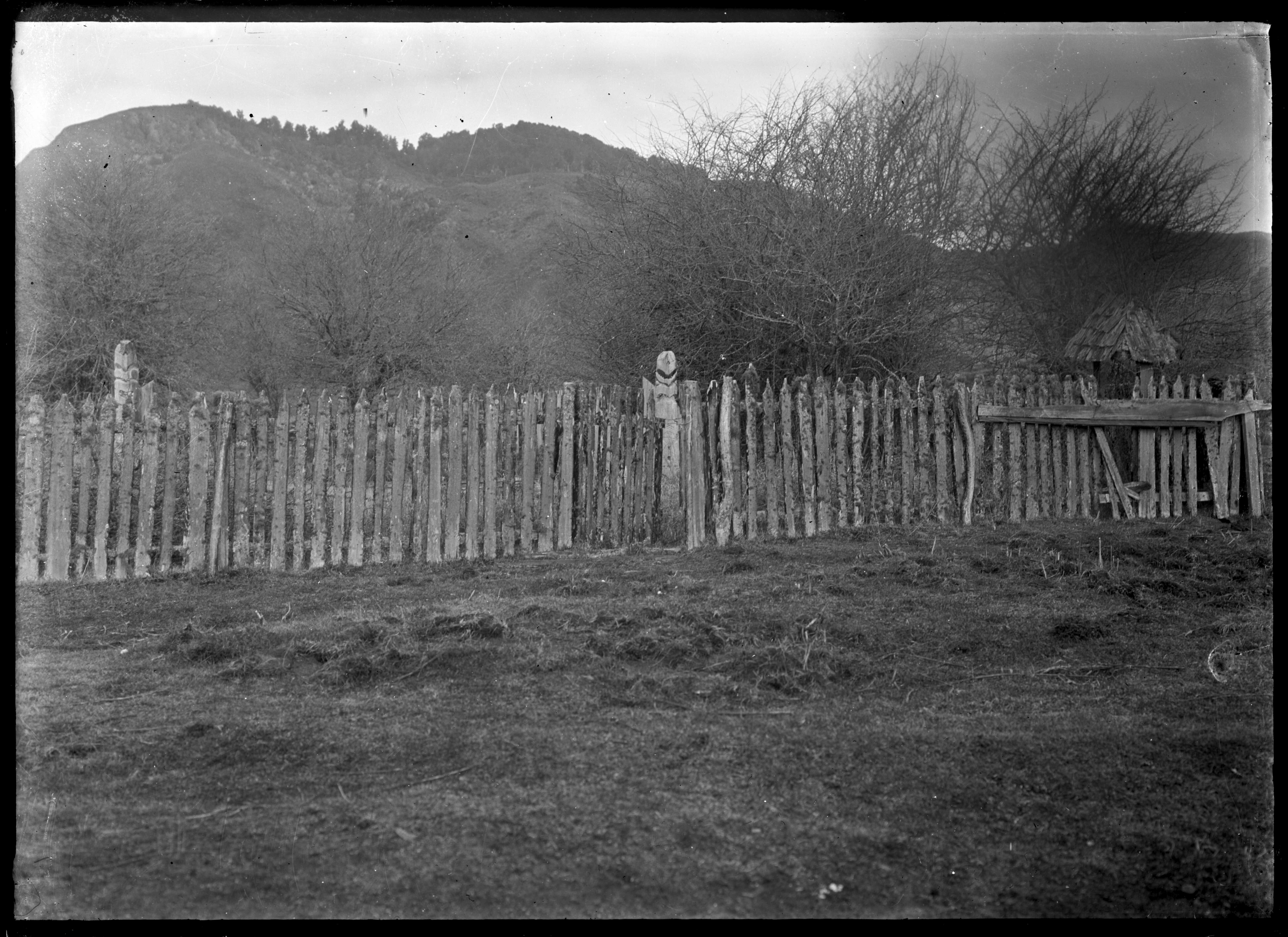 View of the fence at an old house of Te Kooti, at Te Whaiti. The palings have sharpened points along the top, and there are several carved poles. Photograph taken by Albert Percy Godber in October 1930.